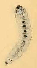 Stainton’s Natural History of the Tineina (1855–1873): Antispila treitschkiella